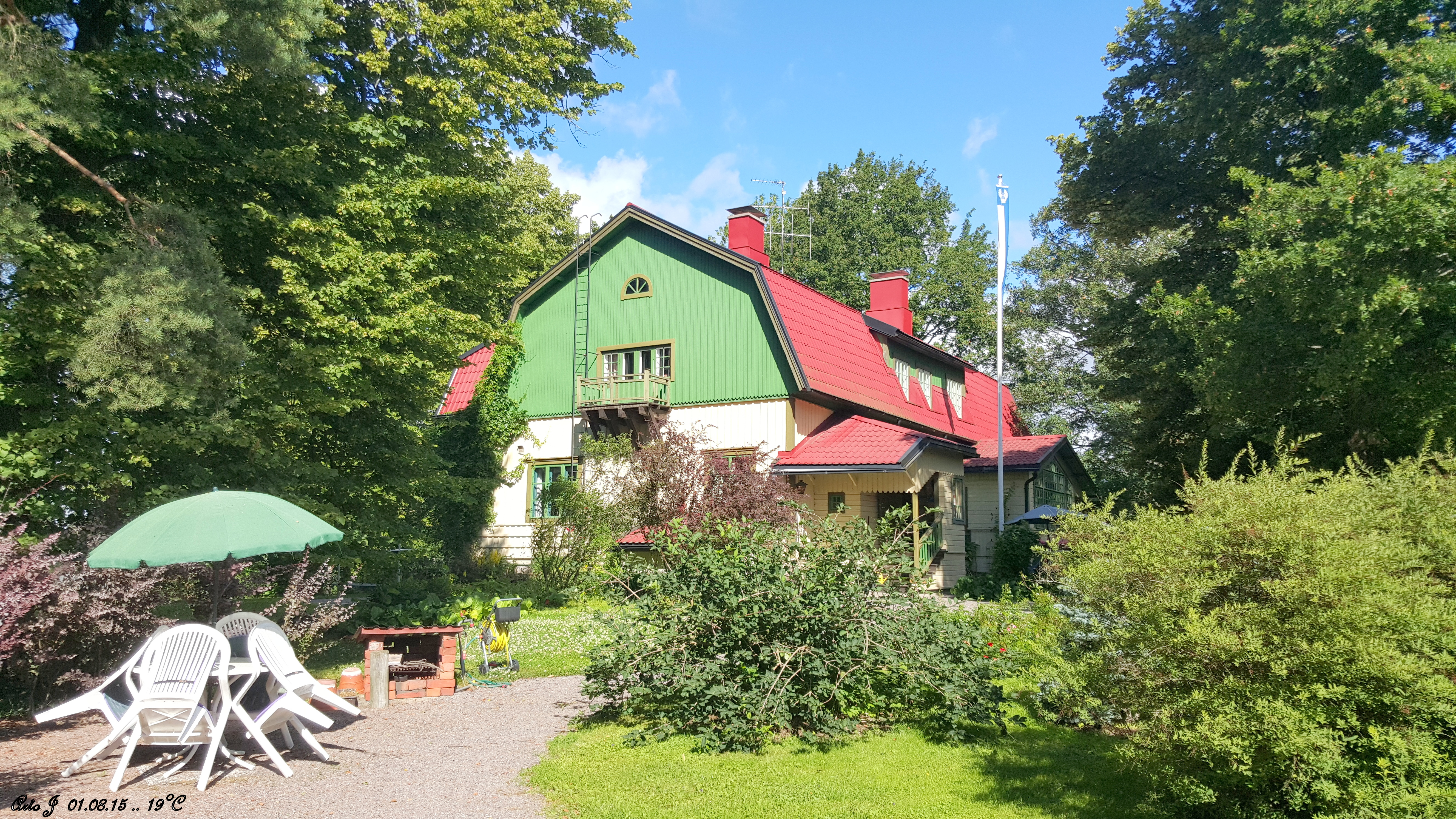 Suviranta - Painter and Professor Eero Järnefelt